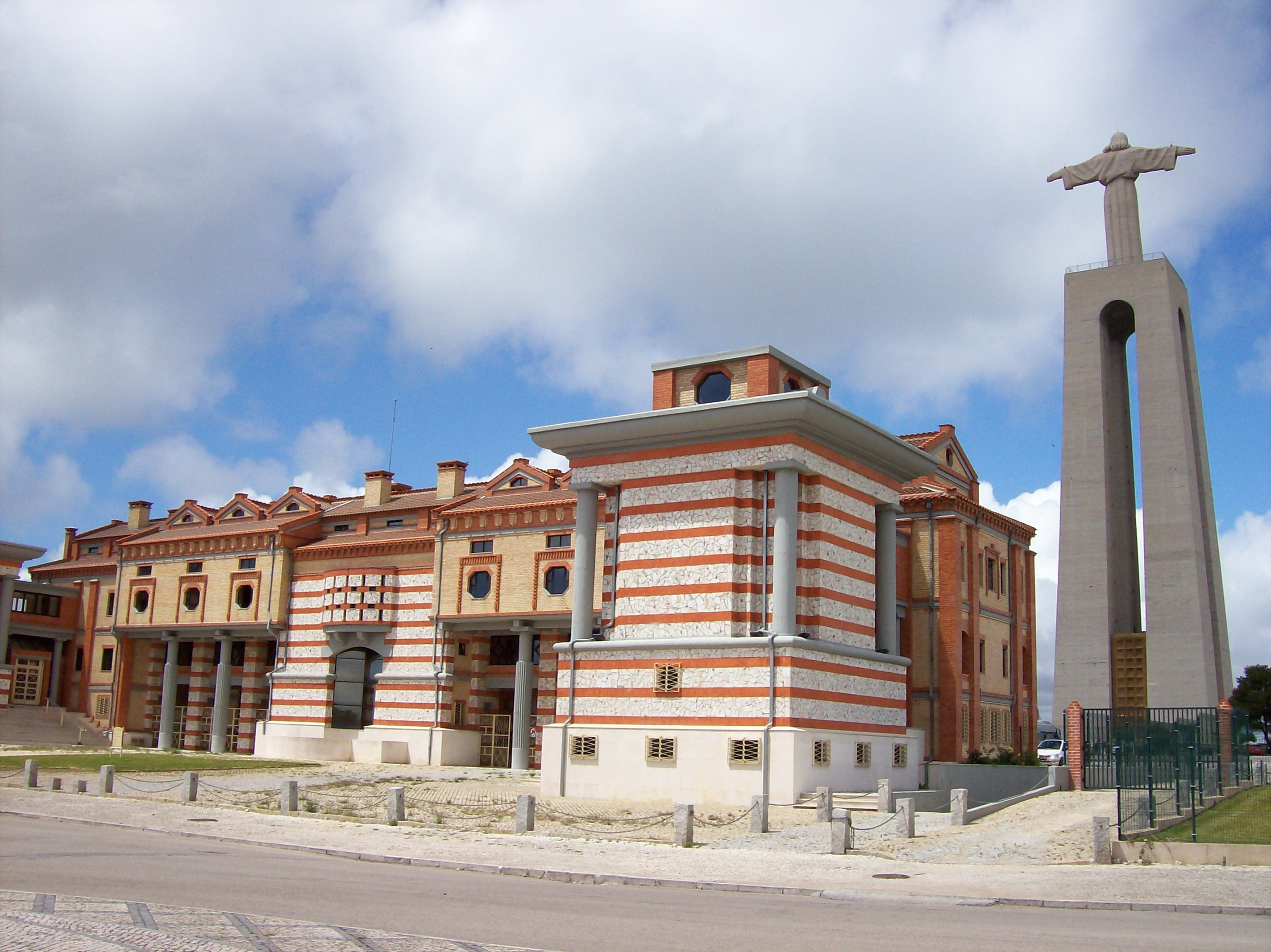 National Shrine of Christ the King and Cristo Rei Statue in Almada (Portugal)